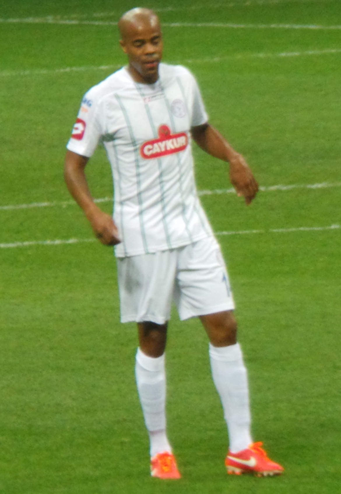 Ludovic Slyvestre with Rize against GS